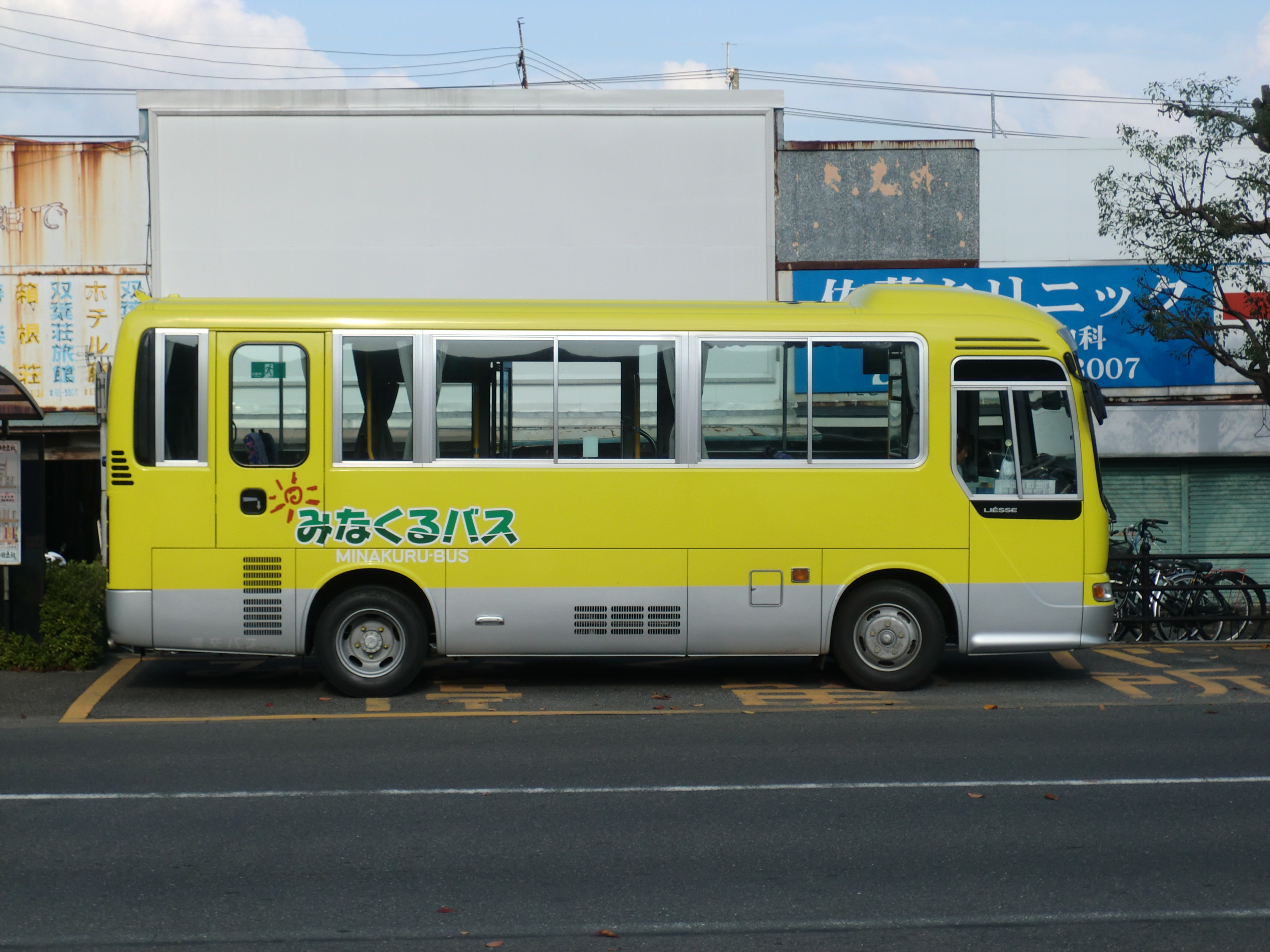 Minakuru bus yellow